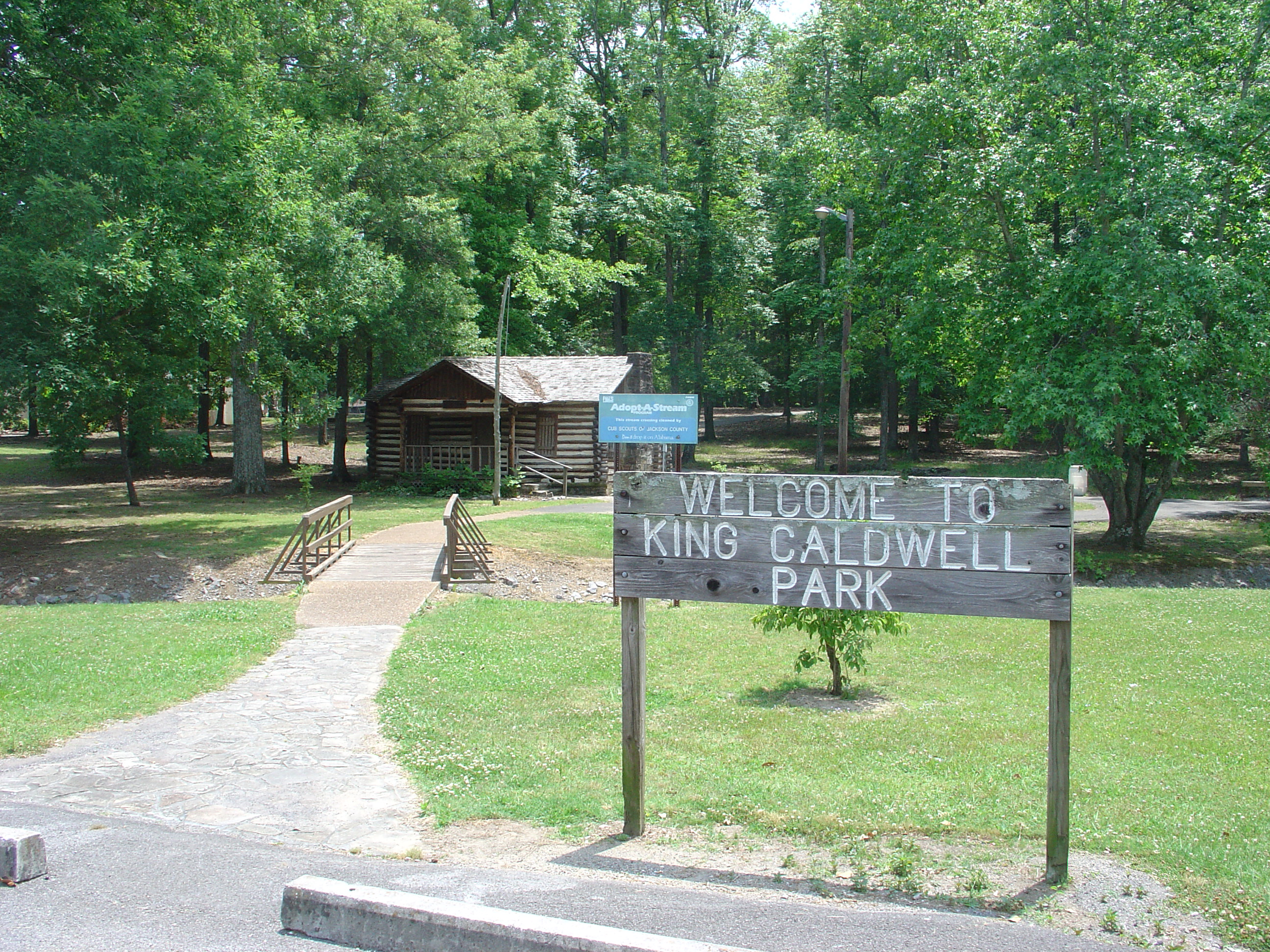 Photo I took